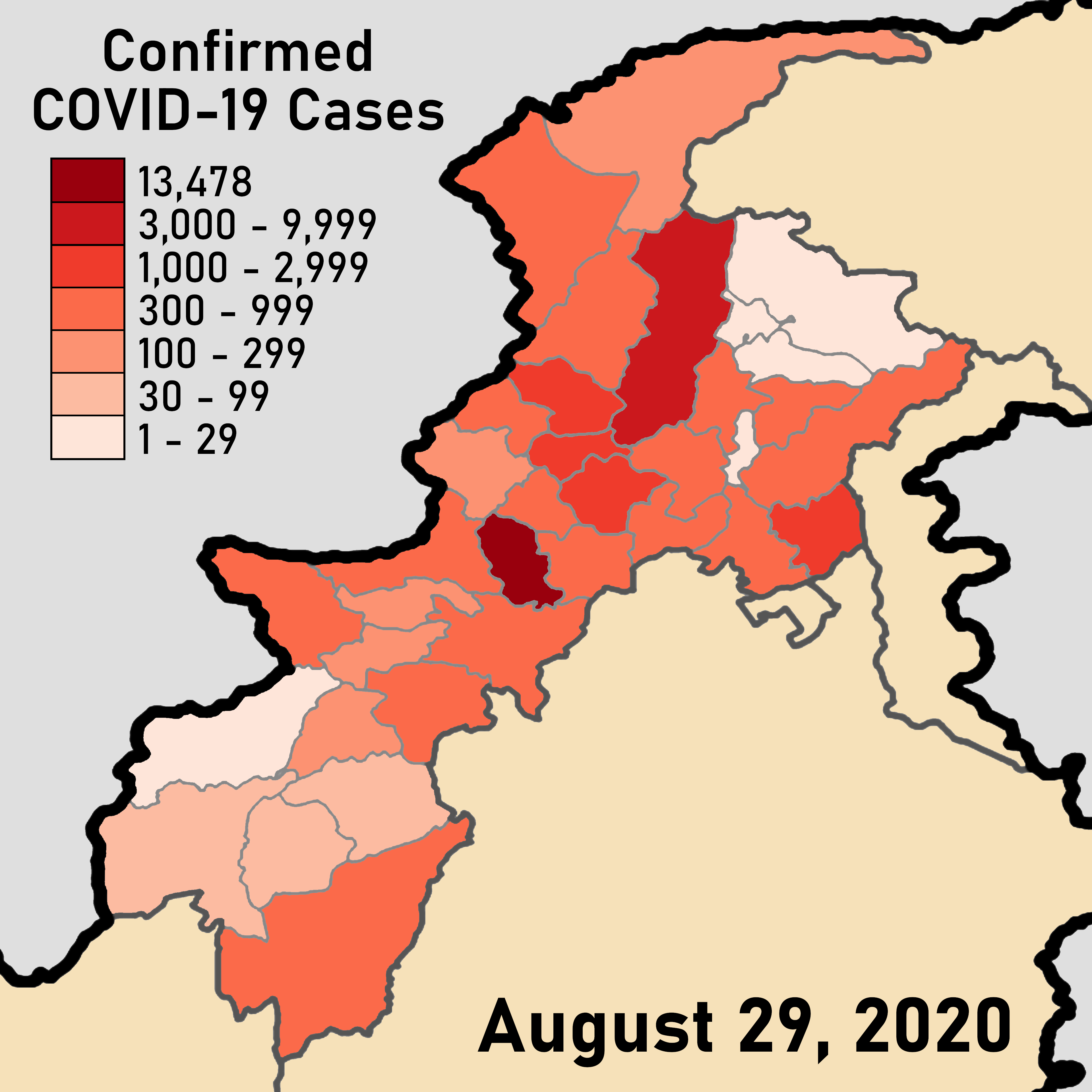 This is a map showing the districts of Khyber Pakhtunkhwa, a province in Pakistan by the amount of COVID-19 Cases inside them. COVID-19 Case data has been taken from the KPK Health Department's Twitter Account and while they update their numbers daily, this map is updated only weekly. The template is my own and was created using maps and data from the Pakistan Bureau of Statistics. It follows the Mercator Projection. This file's latest update reflects data for August 29, 2020, and the case data for that day is located here